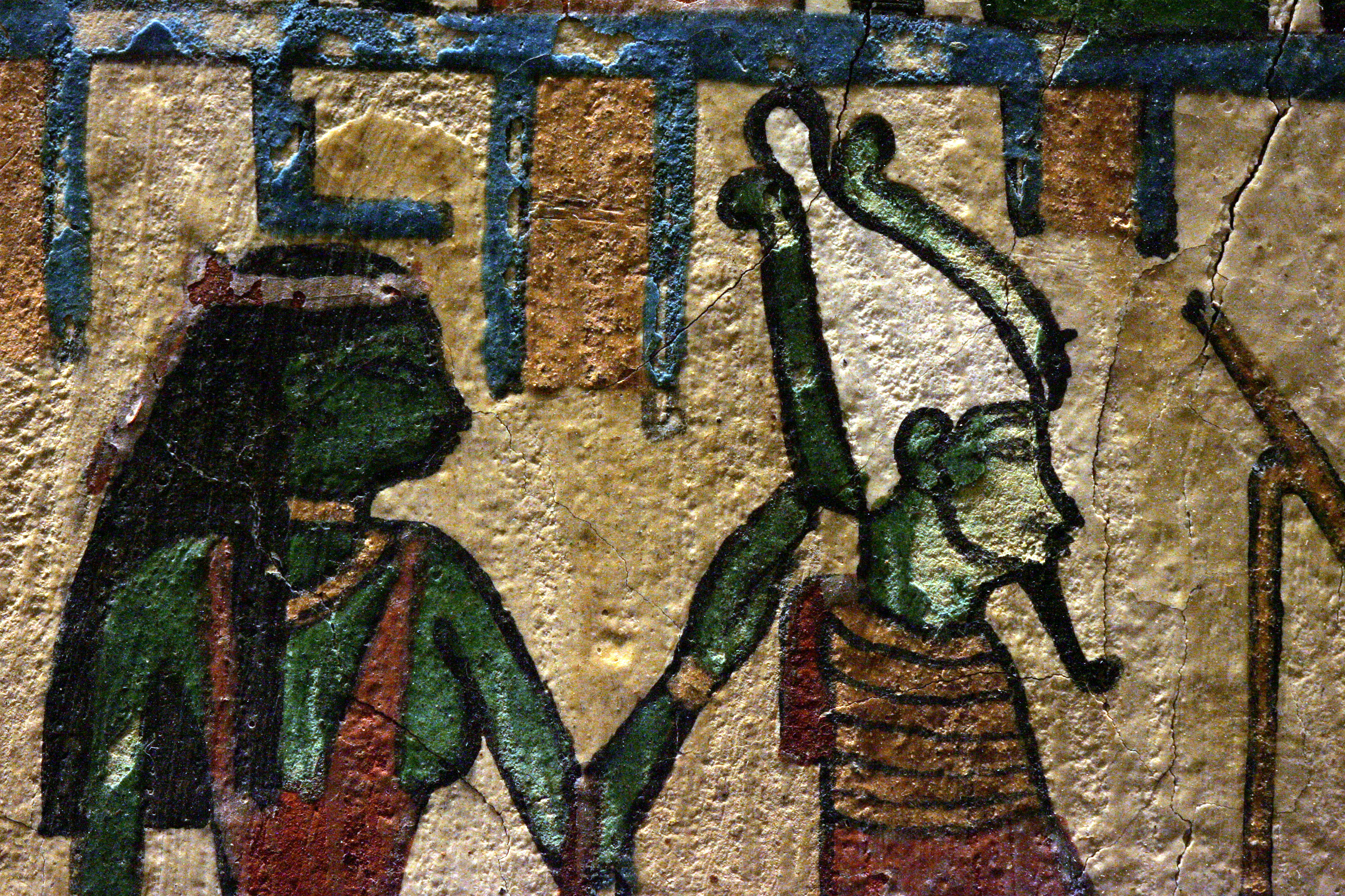 ArtistUnknownDescription Irethorru, keeper of the temple of Amon, giving presents to Osiris, Isis and the four sons of Horus Current location (Inventory)Louvre Museum Native nameMusée du LouvreLocationParisCoordinates48° 51′ 37″ N, 2° 20′ 15″ E Established1793Website control : Q19675 VIAF: 257711507 ISNI: 0000 0001 2260 177X ULAN: 500125189 LCCN: n80020283 NLA: 35912436 WorldCat Sully Rez-de-chaussée Crypte d'Osiris Salle 13 Vitrine 11 : Textes funéraires du premier millénaire avant J.-C.Accession numberN3387ReferencesLouvre.frSource/PhotographerRama Irethorru, keeper of the temple of Amon, giving presents to Osiris, Isis and the four sons of Horus